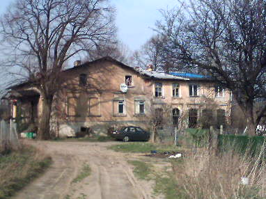 Manor in Gdańsk Rębowo. Kaszëbsczi: Rãbòwò.